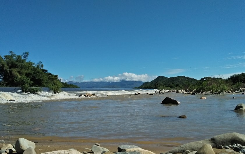 Đập Nha Trinh 4